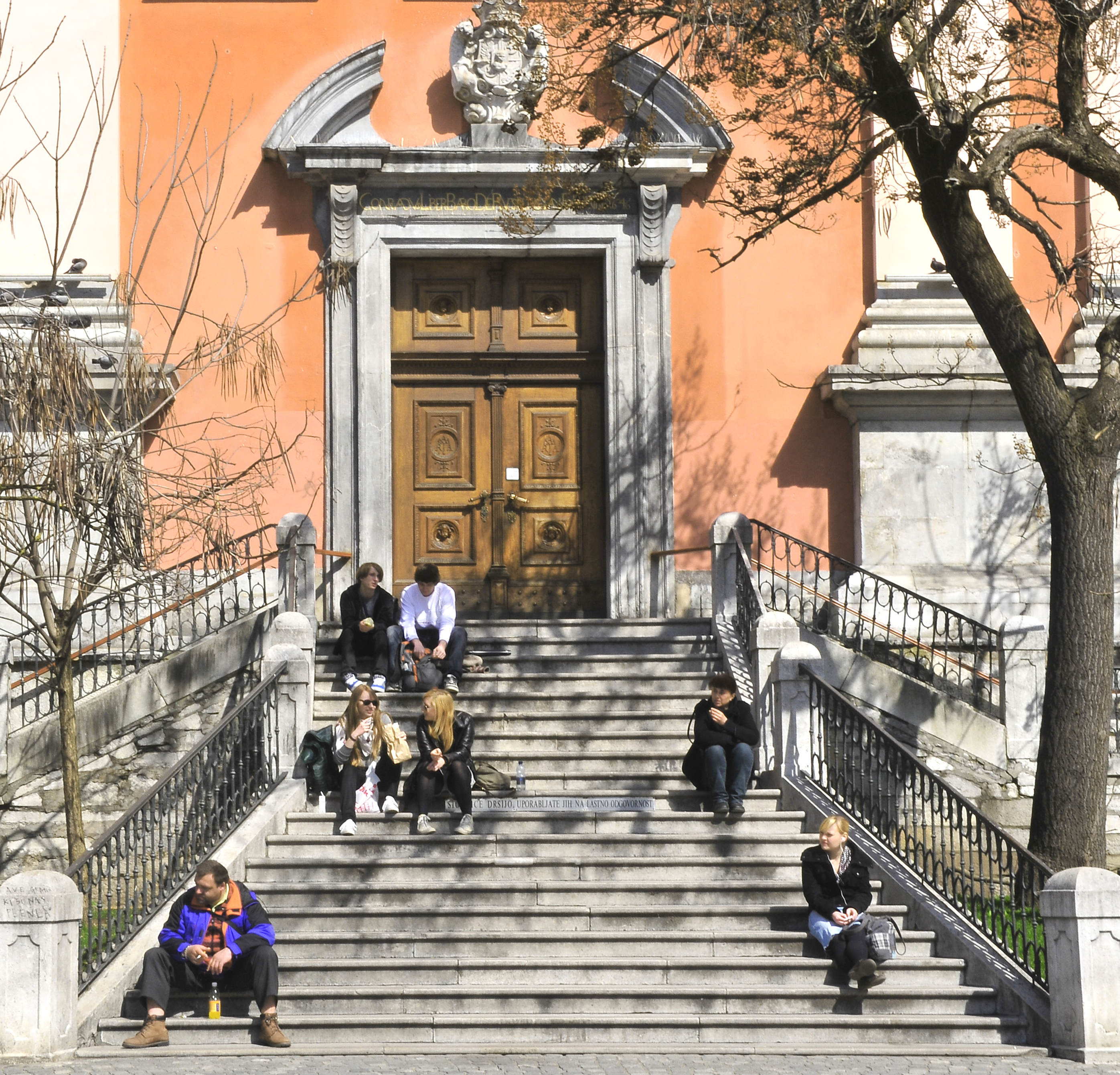 Stairway of the Annunciation Church. Ljubljana, Slovenia